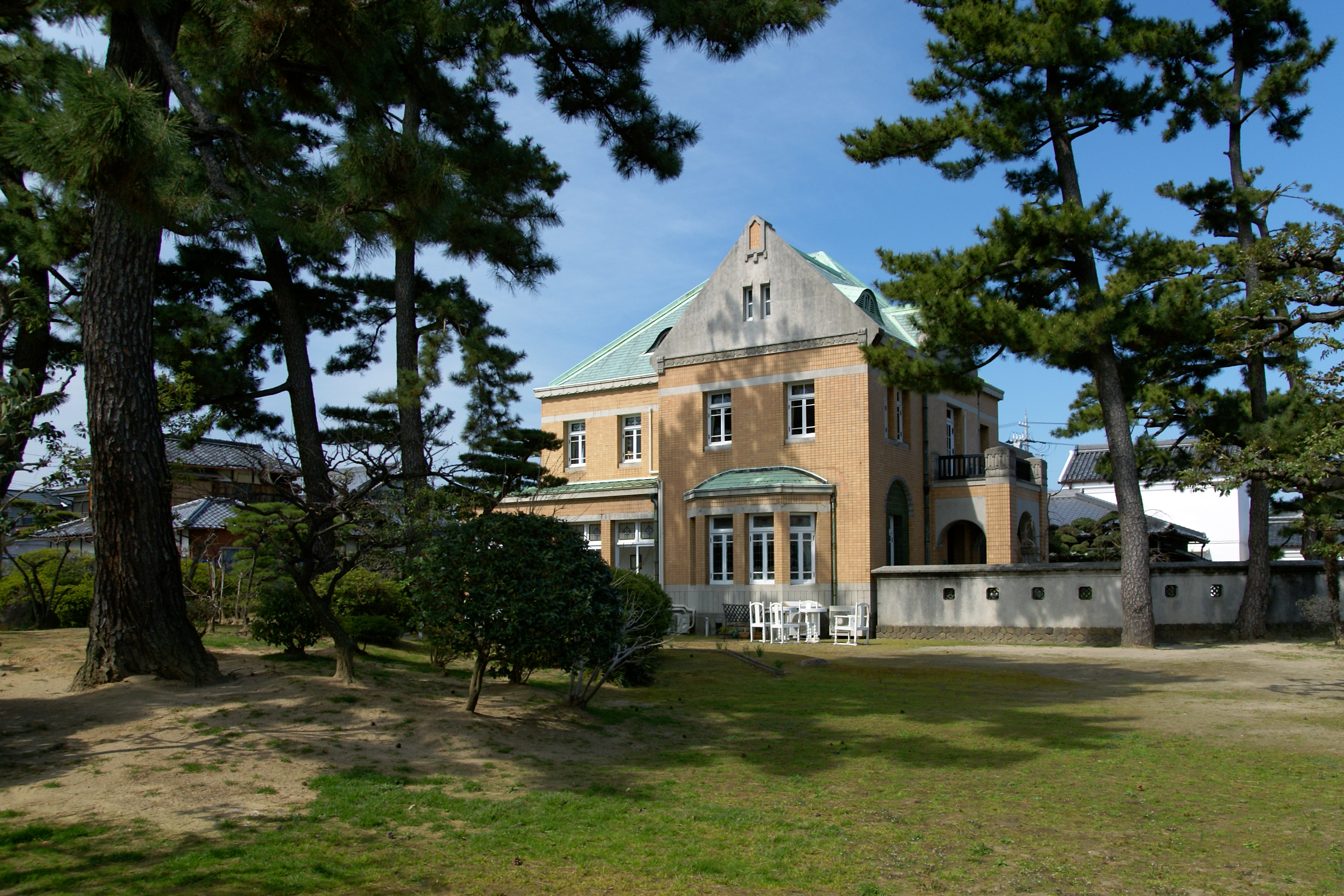 Tajiri Historic House in Tajiri, Osaka prefecture, Japan